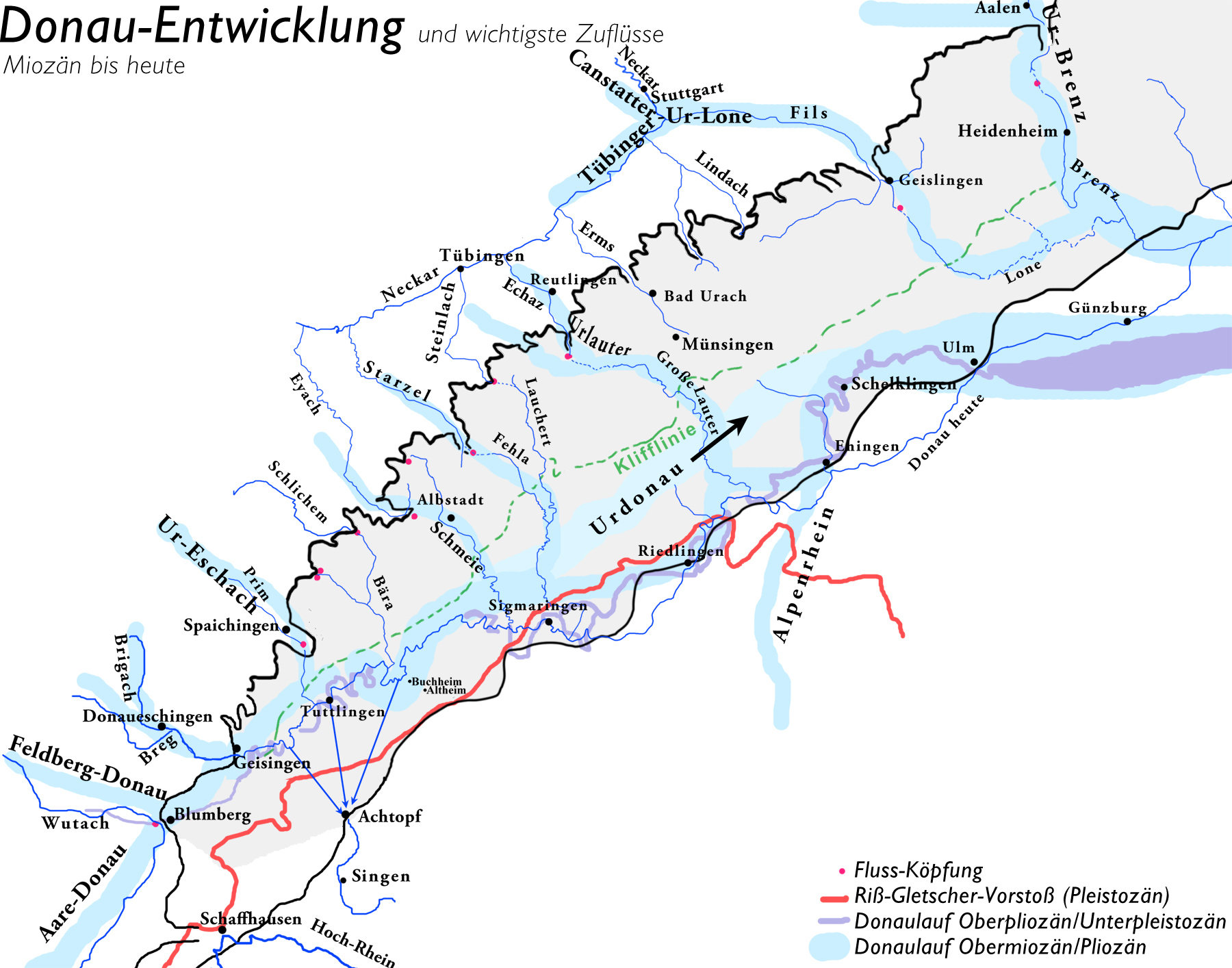 History of the Upper Danube: Upper Miocene, Middle Pliocene, Late Pleistocene, today.